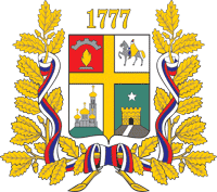 Stavropol, coat of arms (1994)